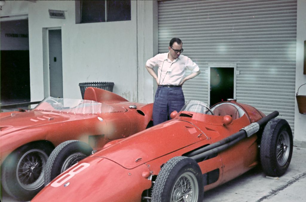 The 1957 Argentine GP. Photo by Carlos Alberto Navarro.